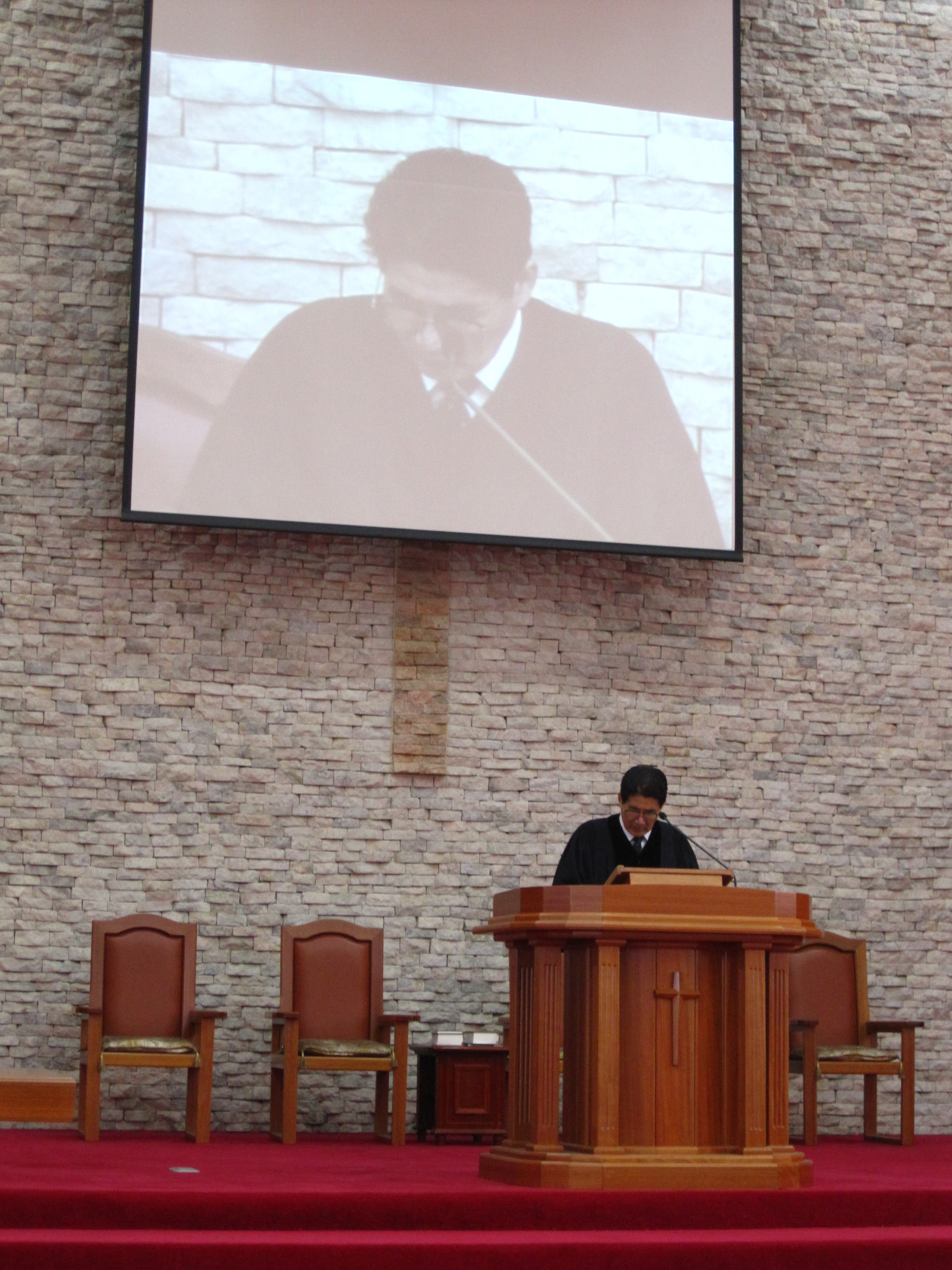 North Korea DPRK